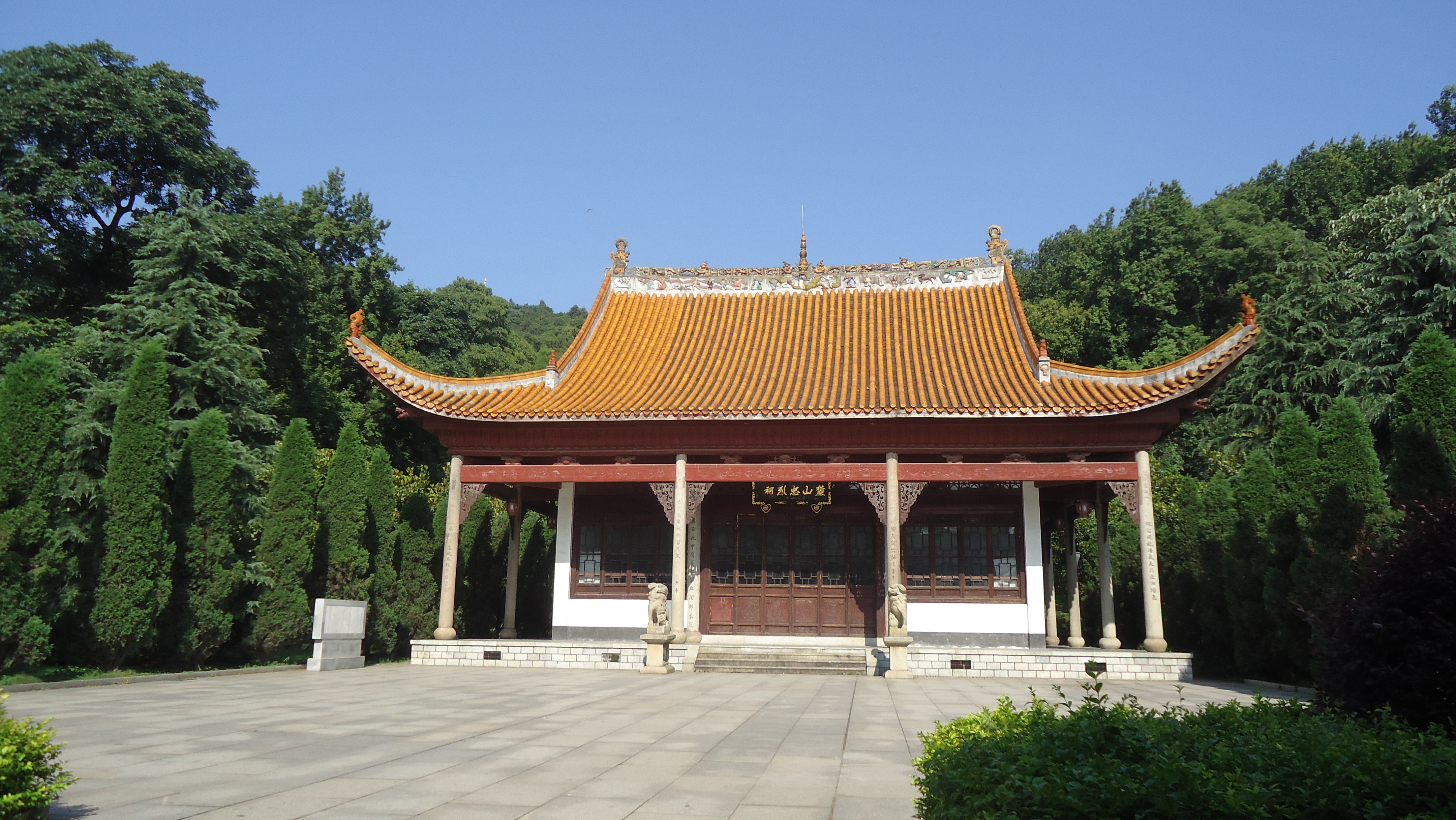 Hunan Normal University,founded in 1938, is a higher education institution located in Changsha, Hunan Province, People's Republic of China. The University is a national 211 Project university, one of the country's 100 key universities in the 21st century that enjoy priority in obtaining national funds.